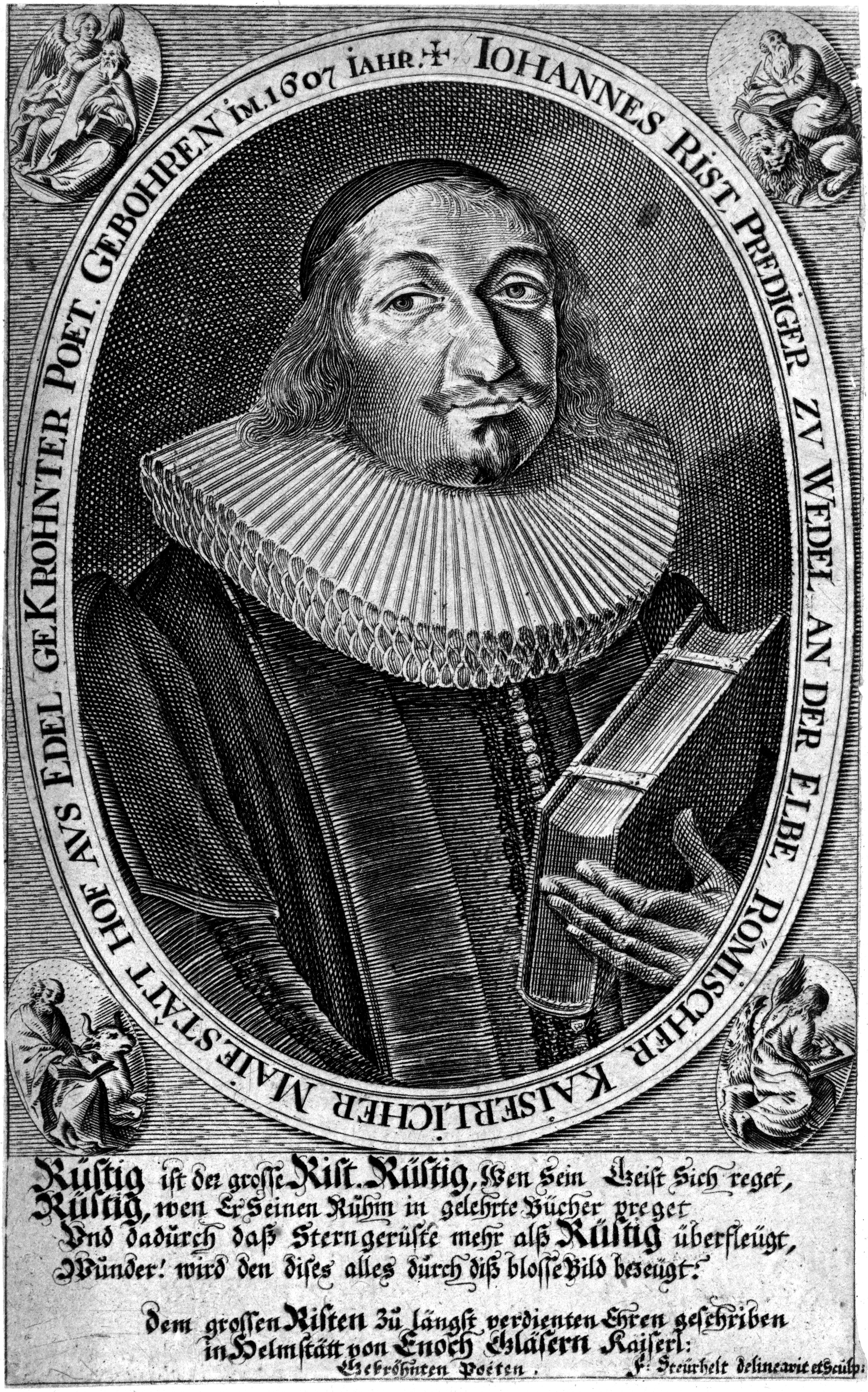 The Baroque poet Johann Rist (1607–1667), from the Sabbhatische Seelenlus, Lüneburg 1651